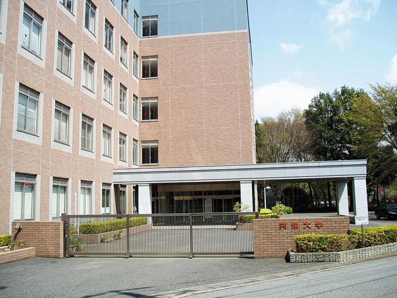 The main gate of Kyoei University located in Uchimaki, Kasukabe, Saitama Prefecture, Japan.